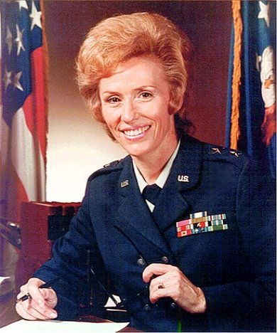 Color photograph portrait of Major General Jeanne M. Holm, USAF, the first woman in the US military to attain that rank. Photograph commissioned after the attainment of rank, June 1 1973.